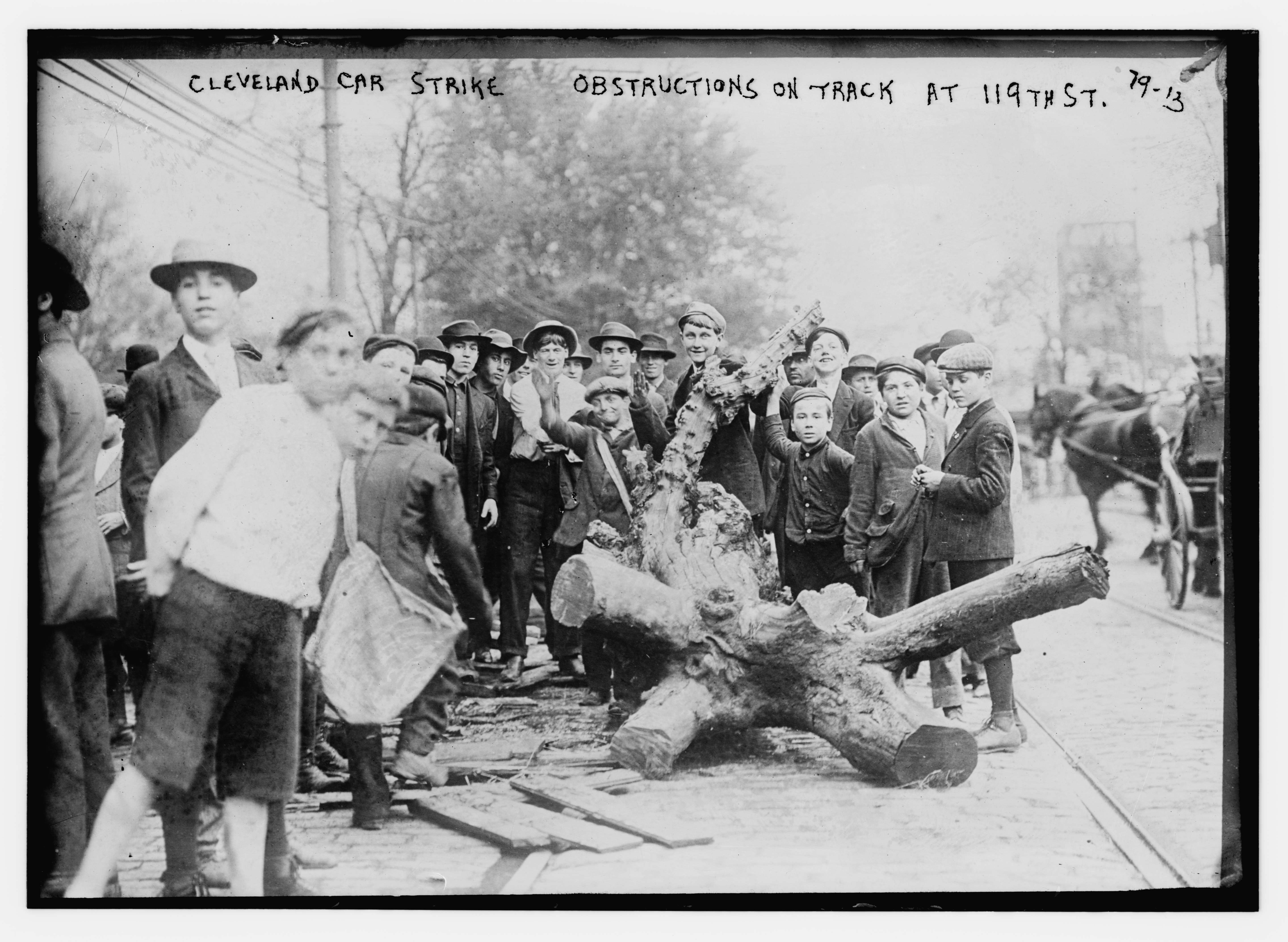 Cleveland Car Strike Obstructions on Track at 119th St. Date Created/Published: [before 1923] - Library of Congress, Prints and Photographs Division, Bain Collection - Reproduction number: LC-DIG-ggbain-50017 (digital file from original negative) - Rights Advisory: No known restrictions on publication.